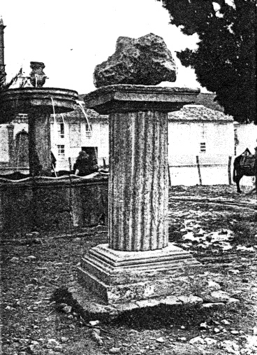 The meteorite on a fluted column in Santa Rosa de Viterbo